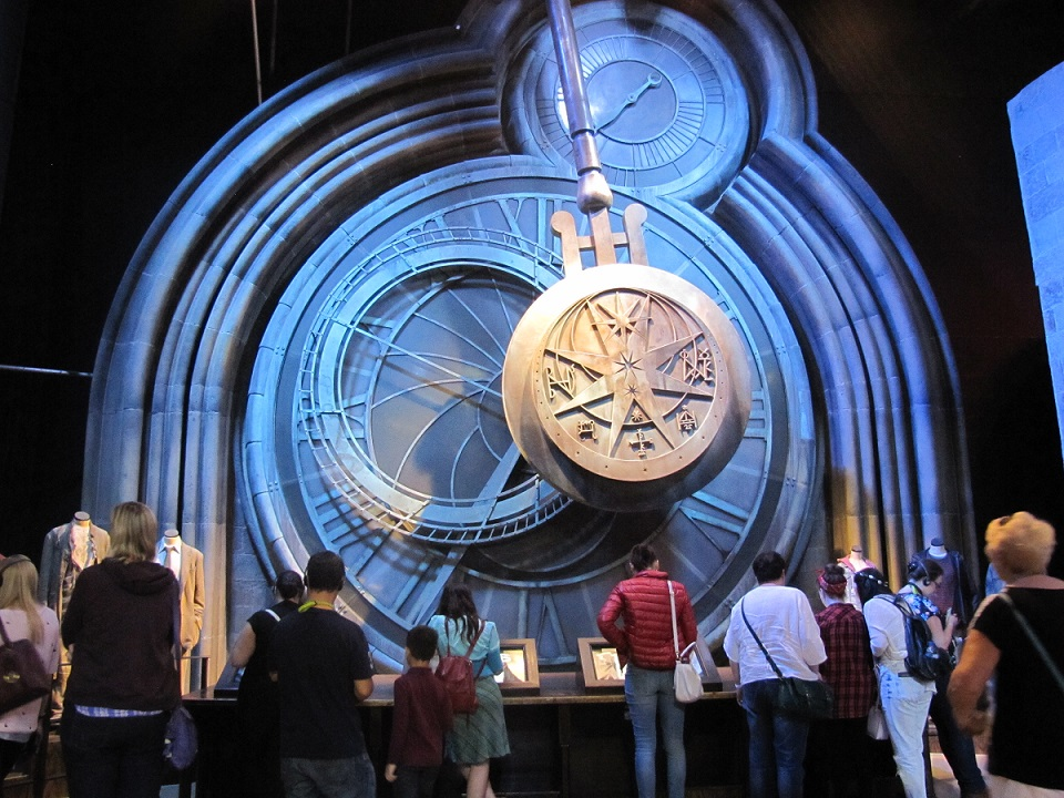 استودیو برادران وارنر (استودیو هری پاتر)